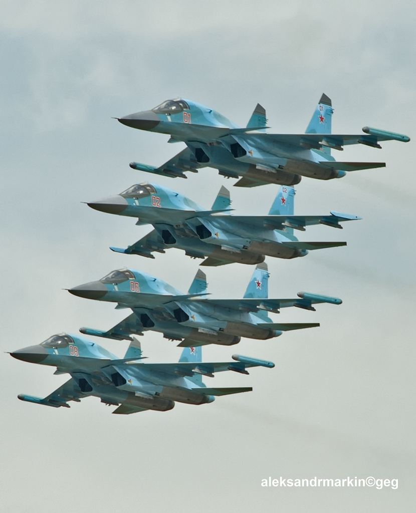 Four SU-34 in flight